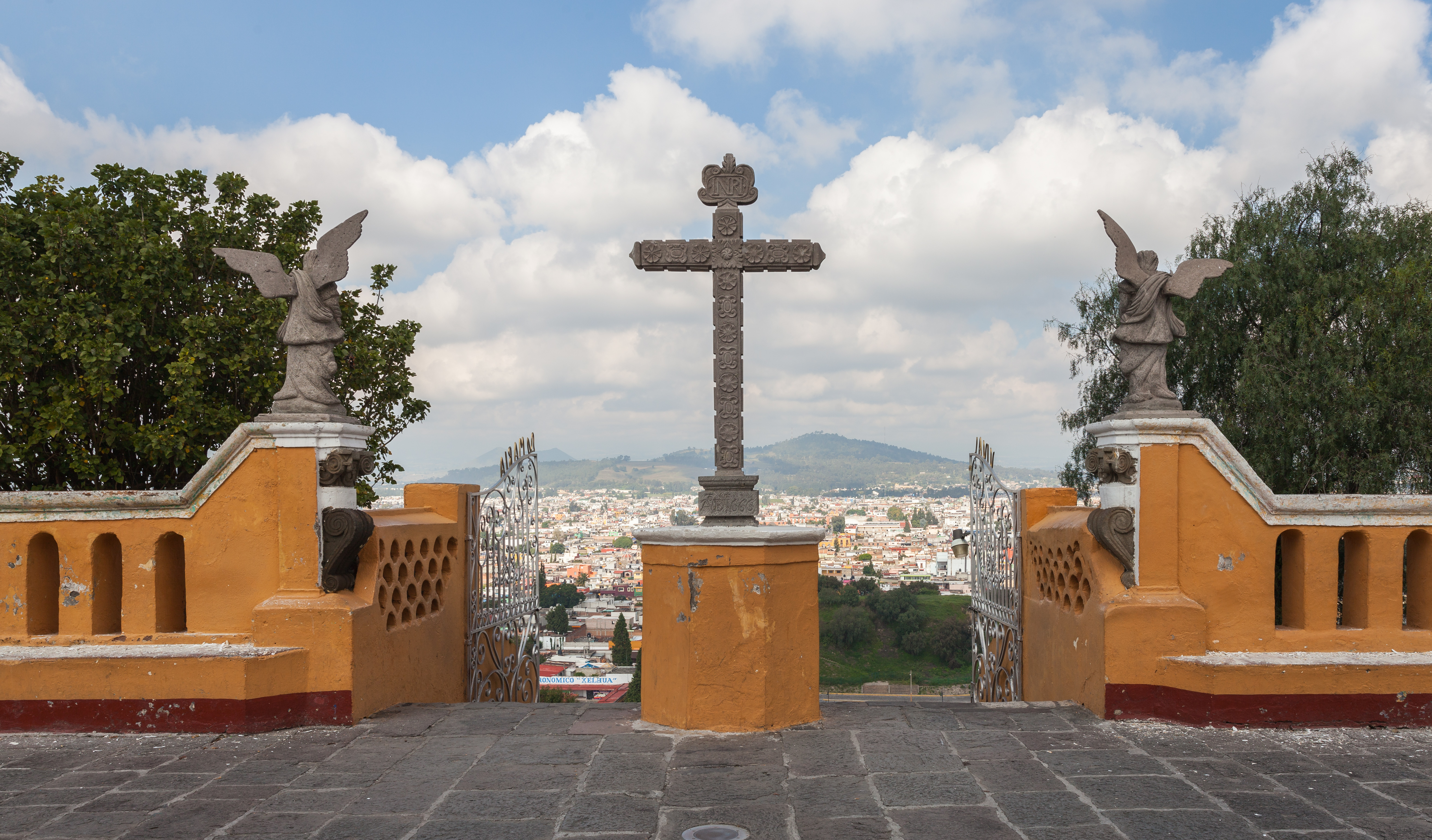 Church of Nuestra Señora de los Remedios, Cholula, Mexico